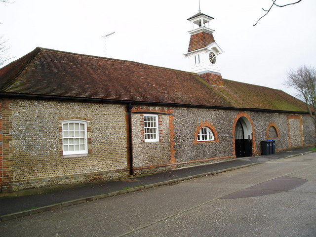 Stable Mews, Hall Avenue, Offington, Worthing, West Sussex. Built in the 18th century as the stables of Offington Hall. In the 20th century it was a riding school.